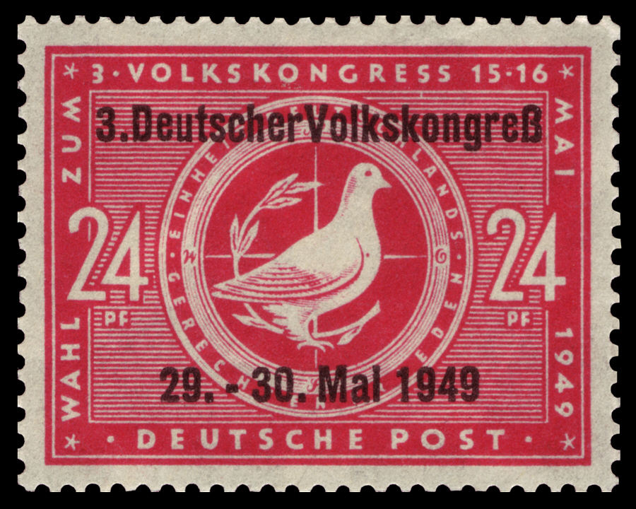 Conference of the 3rd „Volkskongress“ Ausgabepreis: 24 Pfennig First Day of Issue / Erstausgabetag: 15. Januar 1949 Michel-Katalog-Nr: 233 (Alliierte Besatzung - Sowjetische Zone - Allgemeine Ausgaben)